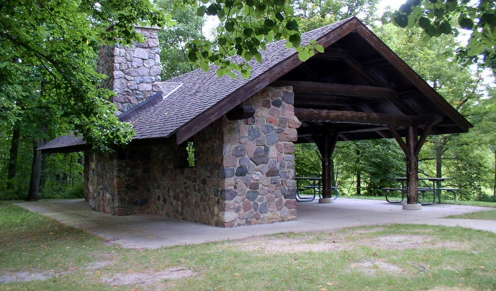 Picnic shelter built by the Civilian Conservation Corps, Pilot Knob State Park, Iowa, USA